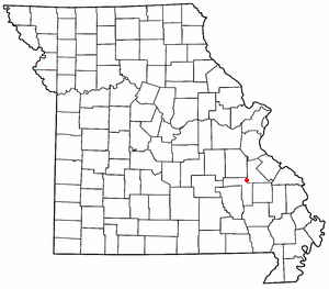 Modified from a map on Wikipedia.